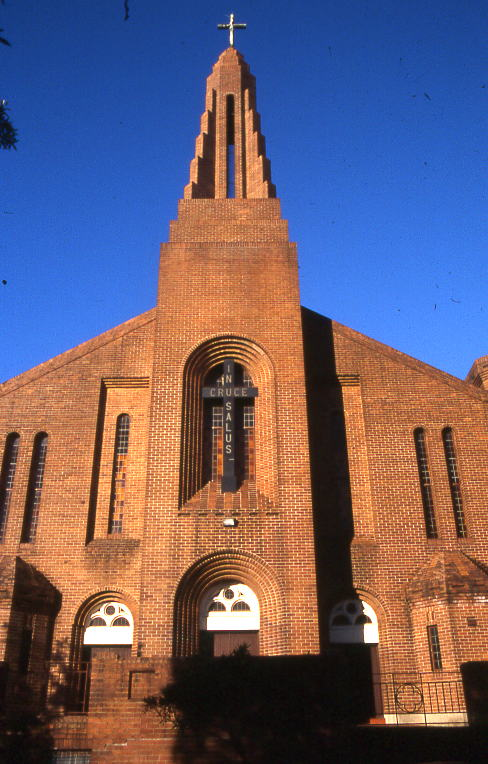 Holy Cross Church, Adelaide Street, Woollahra, New South Wales (Kodachrome slide scanned at low res)